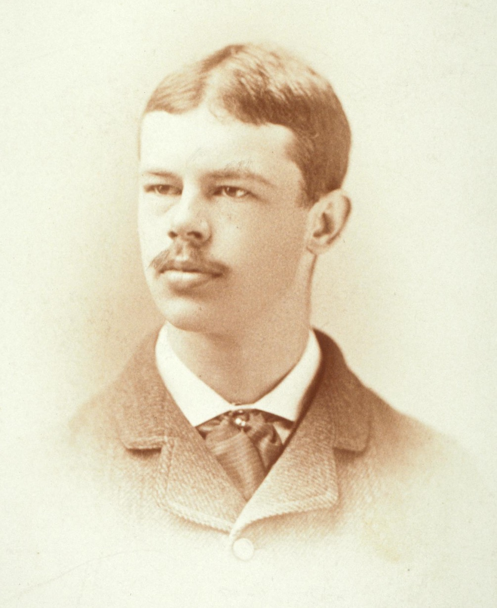 William Lowell Putnam portrait, part of Elizabeth Lowell Putnam Papers